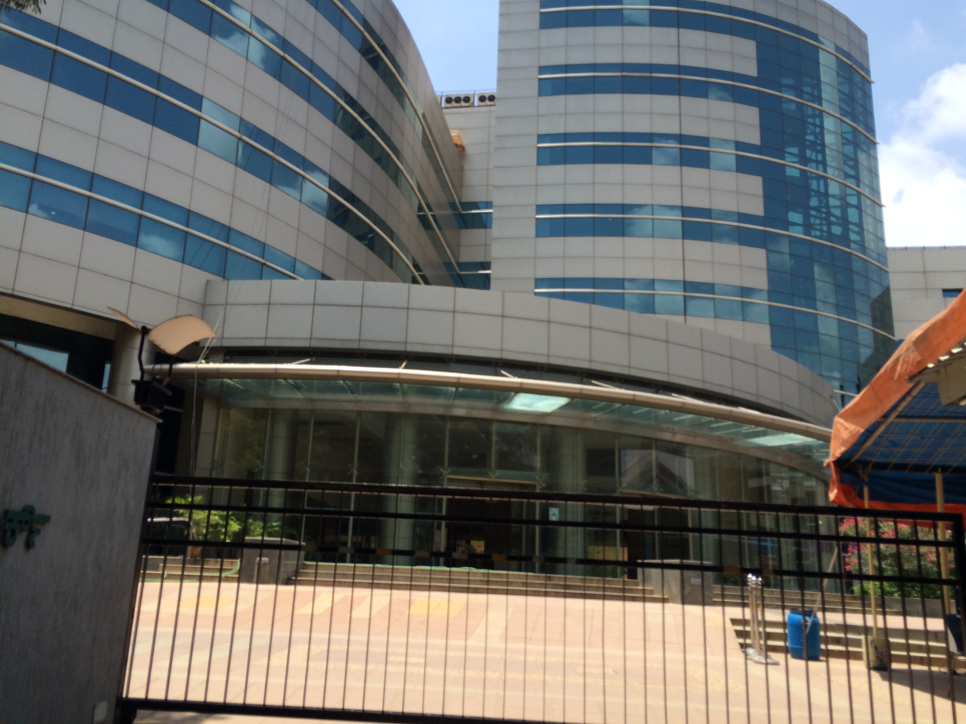 Electronics City Phase 1, Electronic City, Bengaluru, Karnataka 560100, India